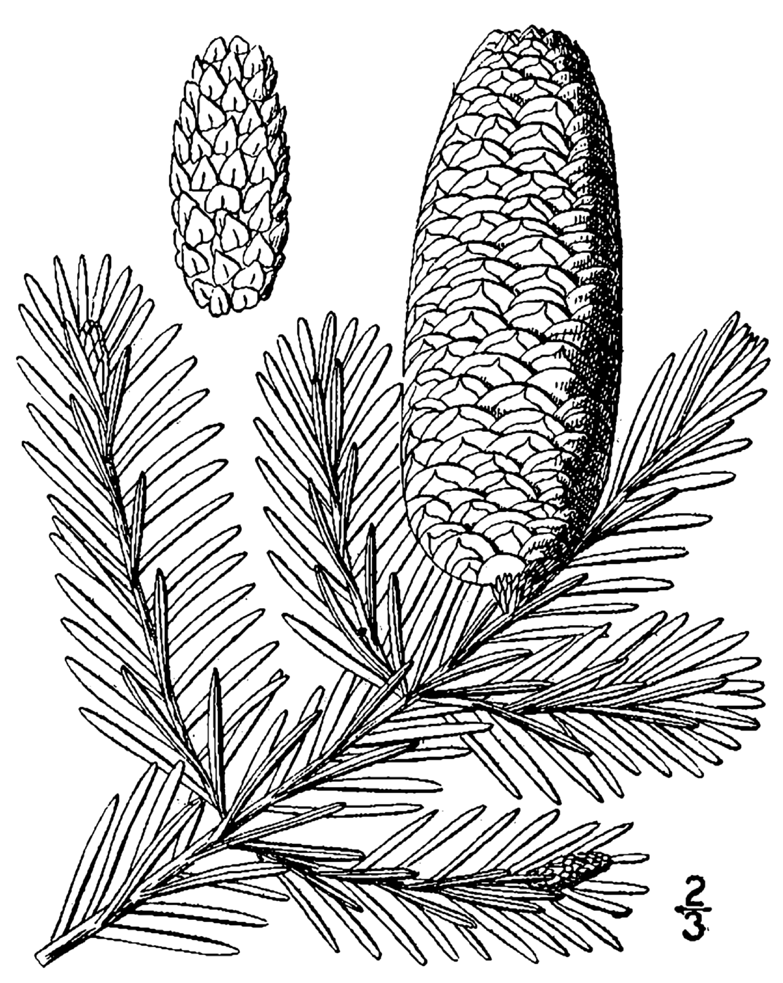 Balsam Fir. Drawing.